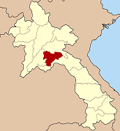 Map of Laos highlighting the province Xaisomboun.